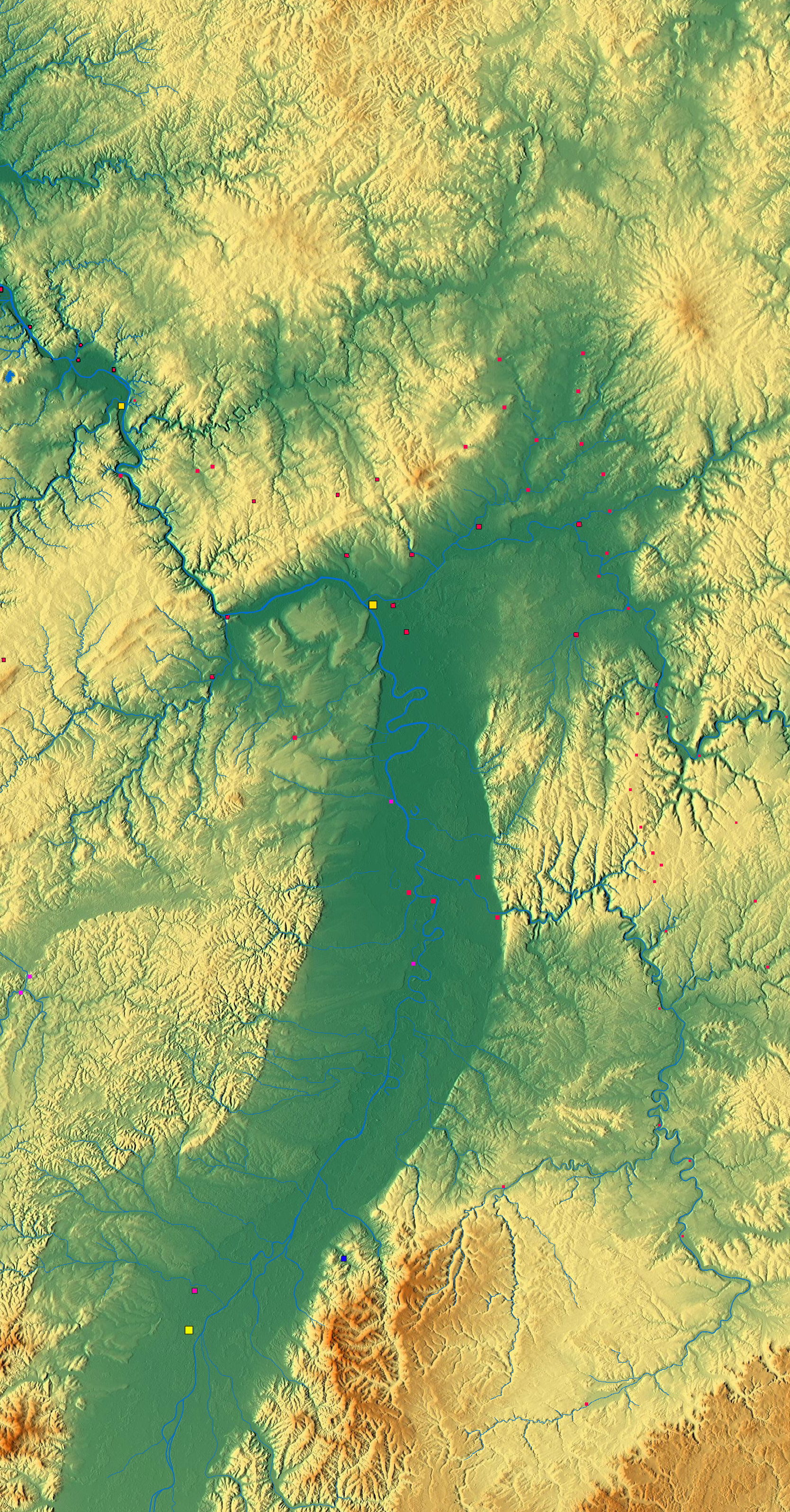 Decumates